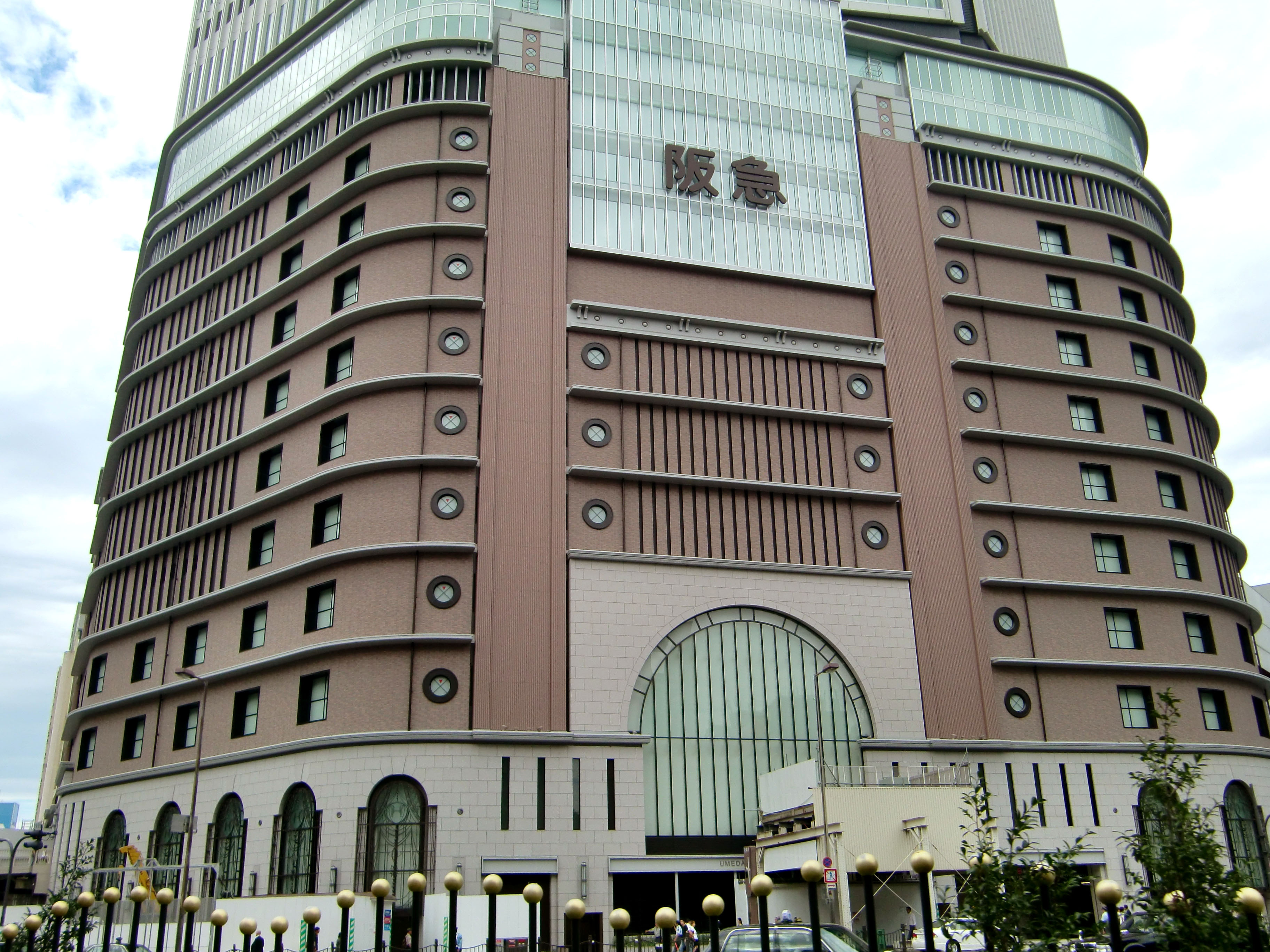 Umeda Hankyu,Kadotacho Kita-Ku Osaka-City Osaka Japan.